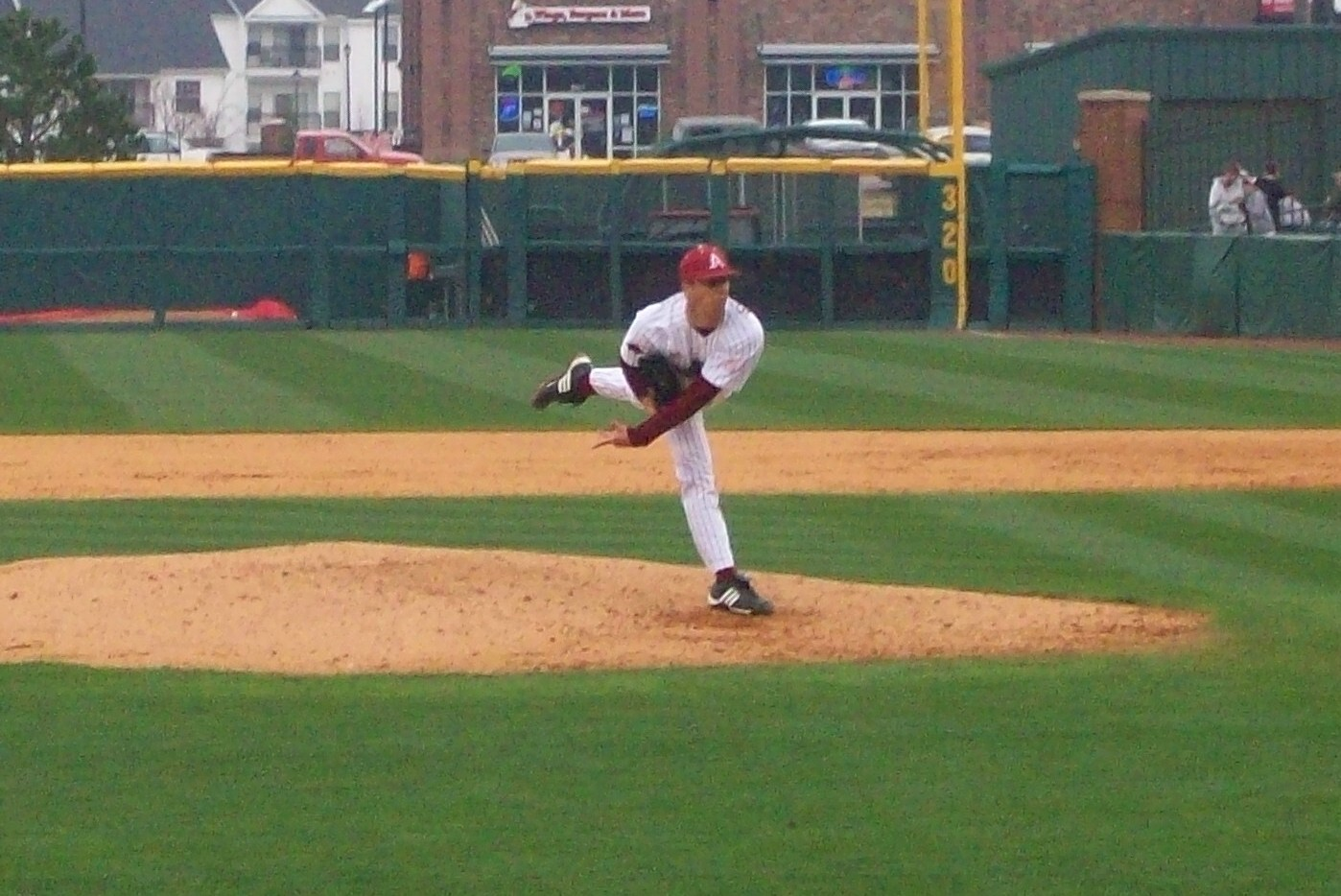 Stephen Richards pitching for the w:2009 Arkansas Razorbacks baseball team